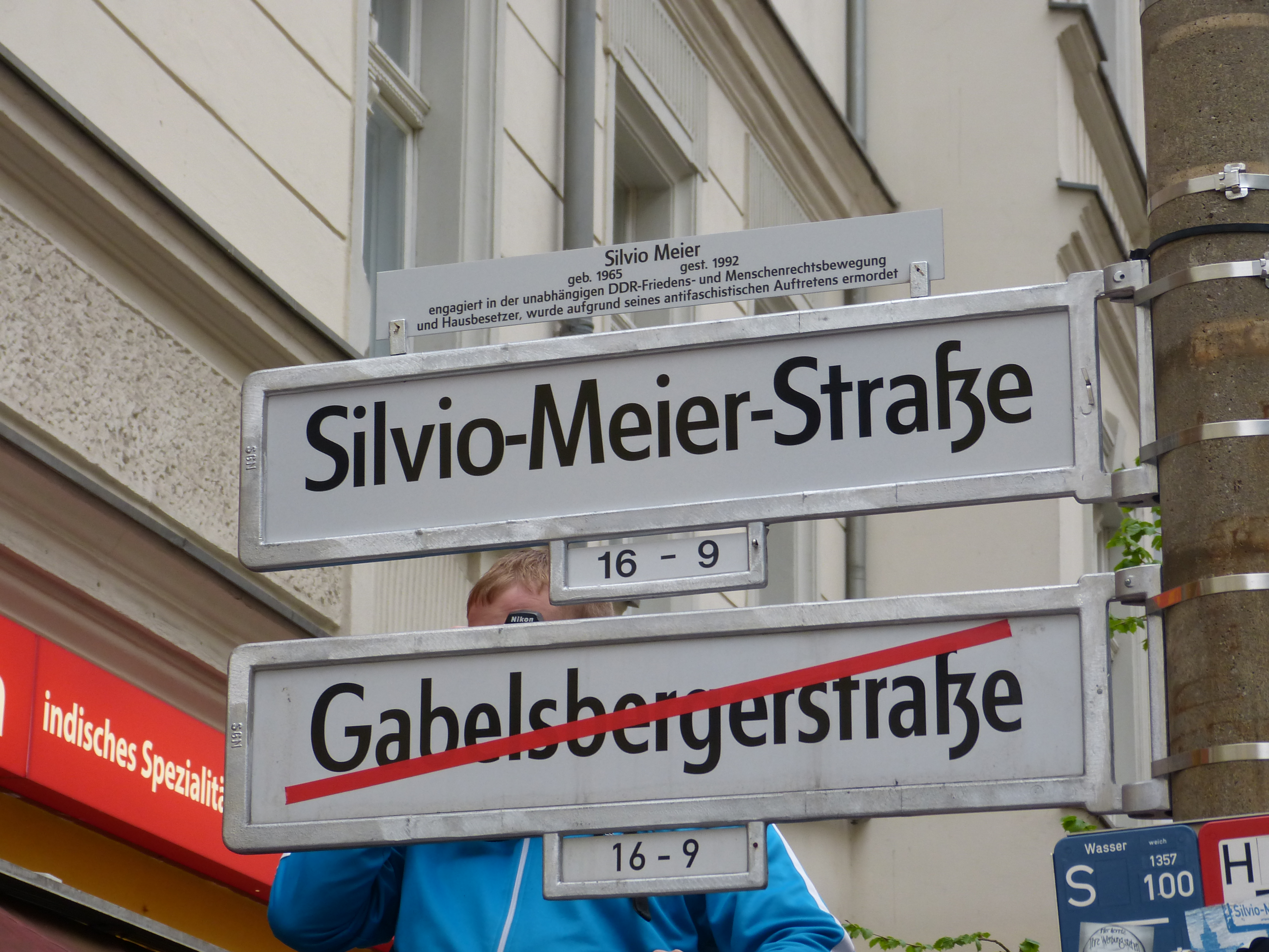 Picture was taken during the renaming ceremony in honor to Silvio Meier